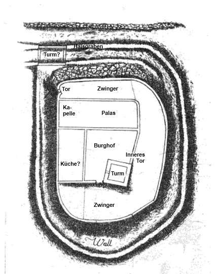 ground plan of the ruin Altes Schloss in Bad Berneck (Germany)